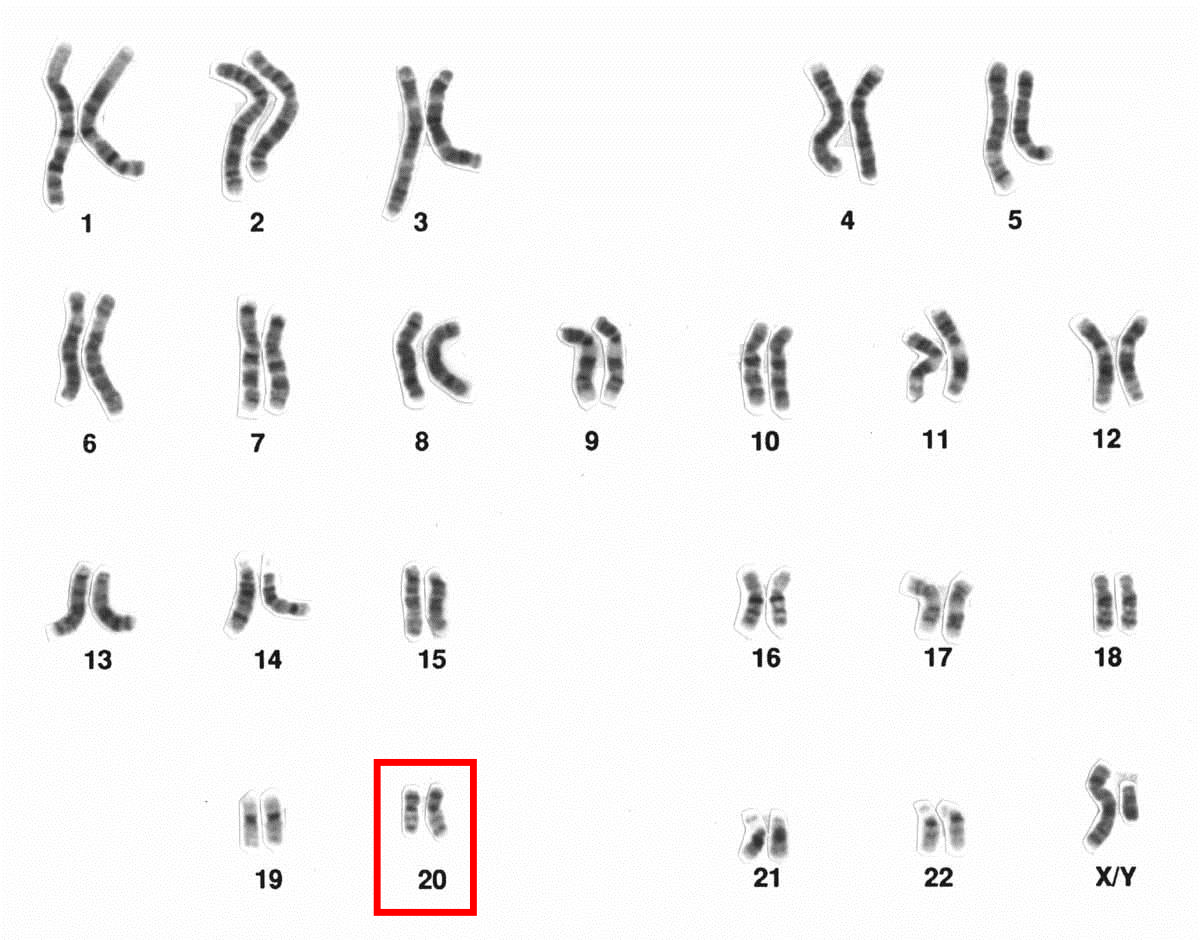 Human male Karyotype after G-banding. Chromosome 20 highlighted